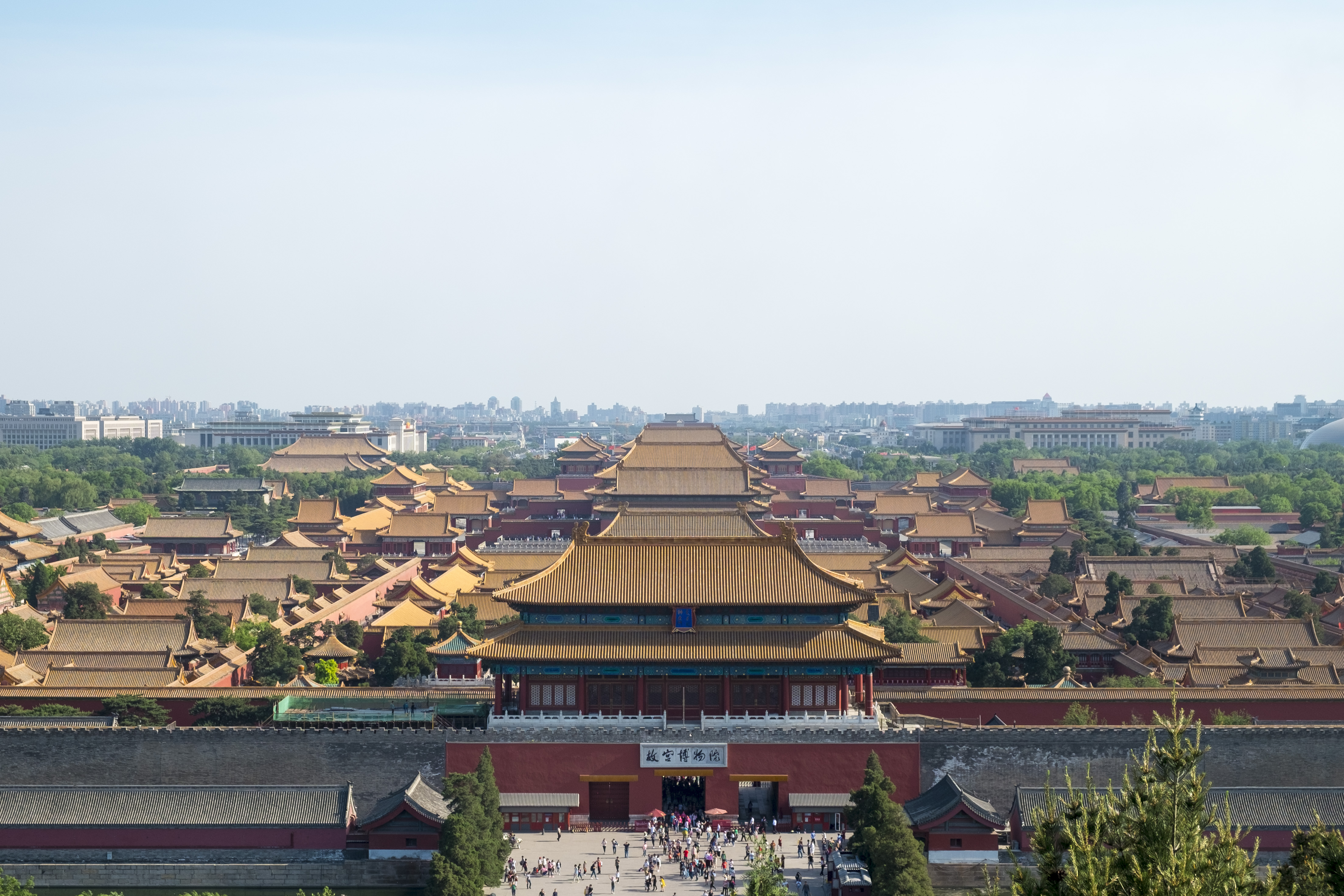 View of the Forbidden City from Jingshan